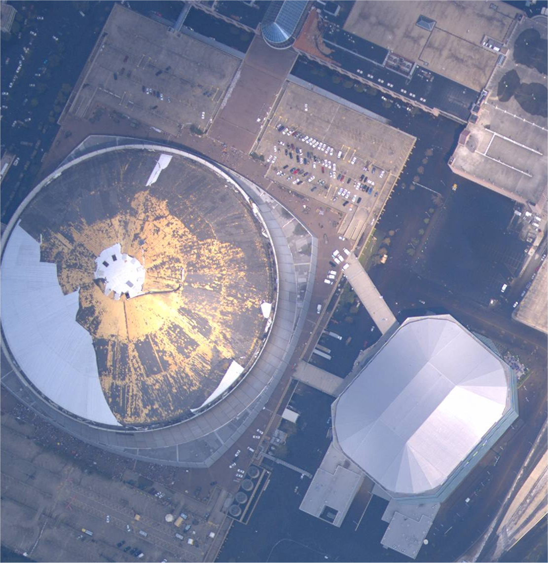 New Orleans: Overhead view of Superdome and Arena in flooding from the levee failures during Hurricane Katrina, 2005.